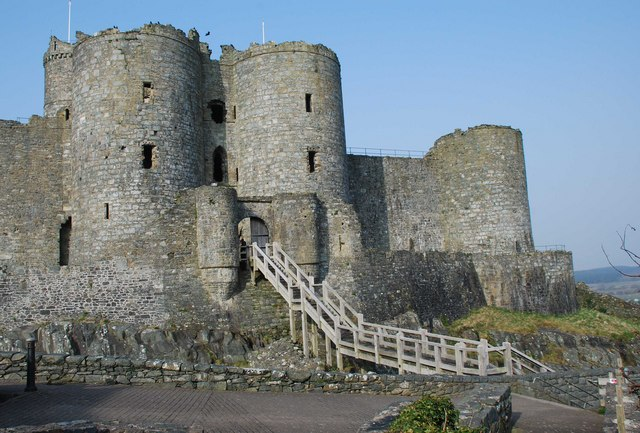 Castell Harlech Standing on the hardd lech (fine rock) from which the town of Harlech took its name, the castle was begun during the invading English King Edward I’s second campaign in North Wales in 1283 and completed within a few years as part of Edward’s “Iron Ring” of fortifications to subdue the Welsh in the North. The architect of the concentric bastion was Master James of St George who had built notable castles in Savoy on the border between France and Italy and whom Edward had brought from the continent. In 1404 the Castle was captured by Owain Glyndŵr during the national uprising of the Welsh. Harlech became Glyndŵr's official residence and court and the place to which he summoned parliaments of his supporters. The castle was recaptured by the English in 1409 under the command of Harry of Monmouth, the future King Henry V. Sixty years later Harlech was one of the last Lancastrian strongholds during the Wars of the Roses. During the Civil War the castle was the last Royalist stronghold to fall to the Parliamentarians on 16 March 1647. For further information and links see Harlech_Castle